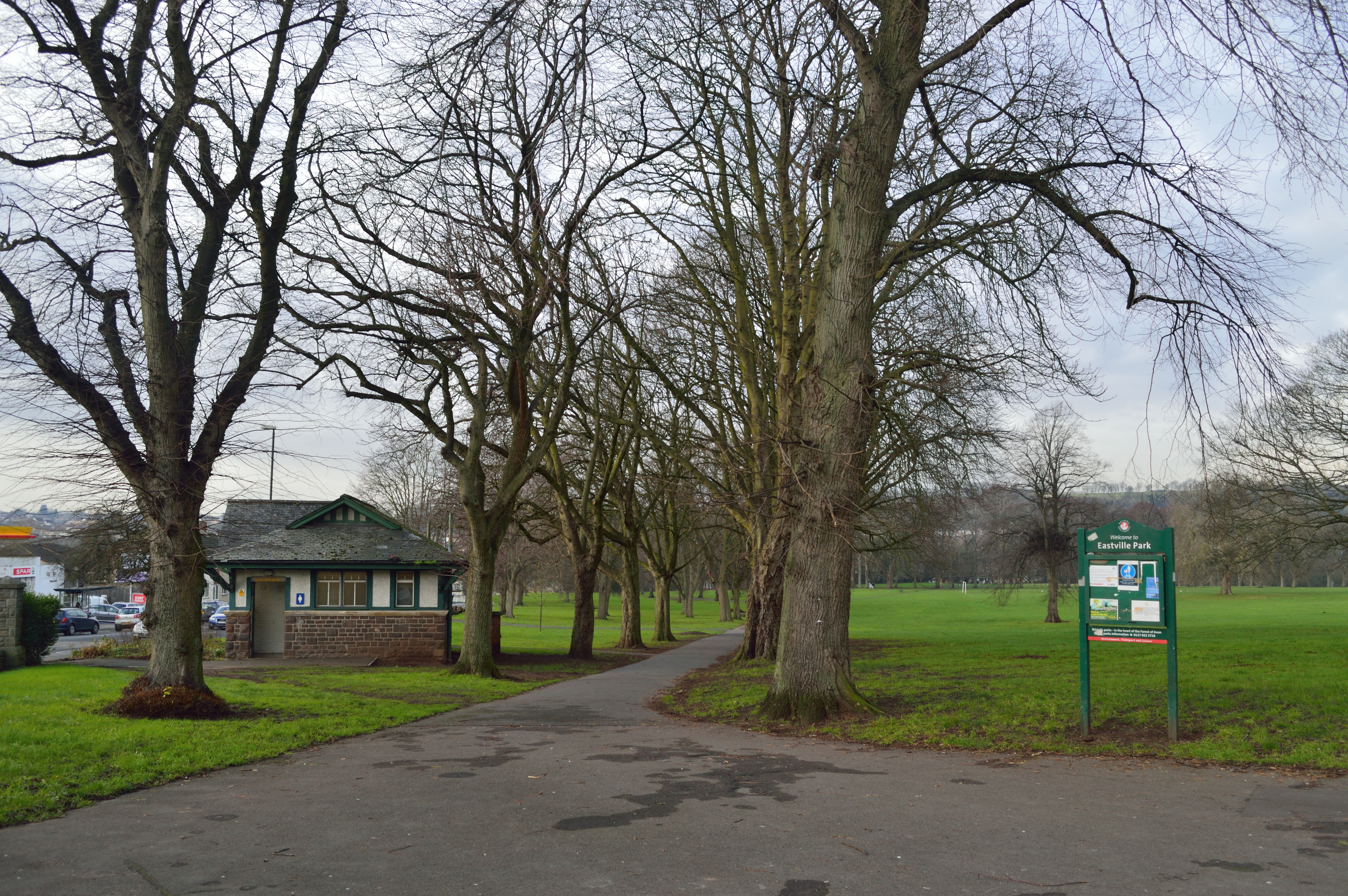 South west side of Eastville Park, Bristol, showing Muller Road on the left.